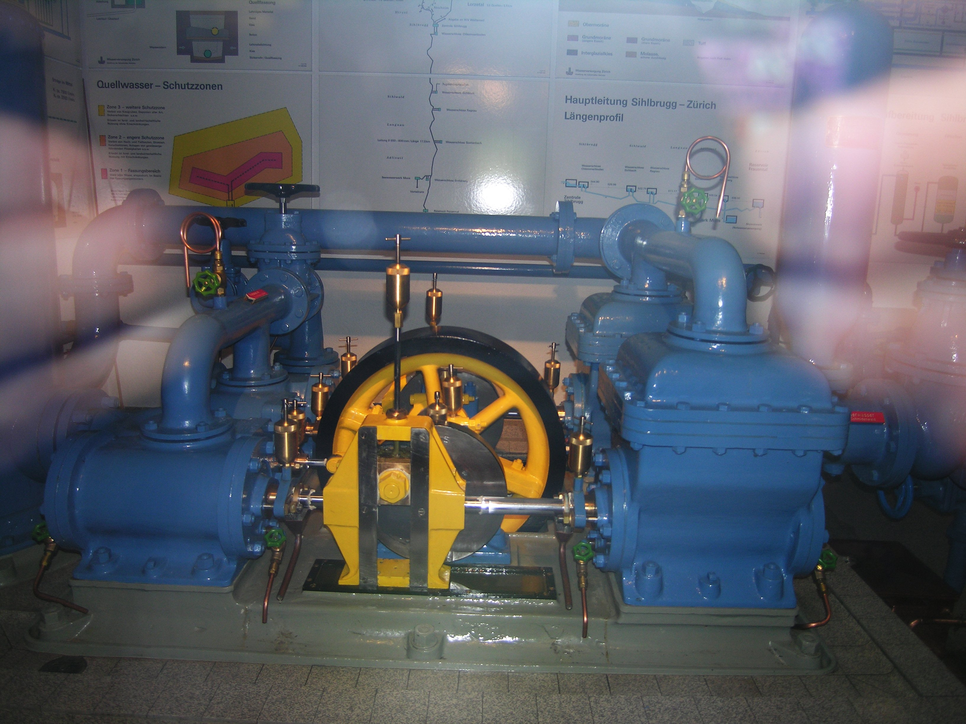 The hydraulic ram - like device that operated for near 100 years near Baar (Switzerland) lifting water without any additional energy source.